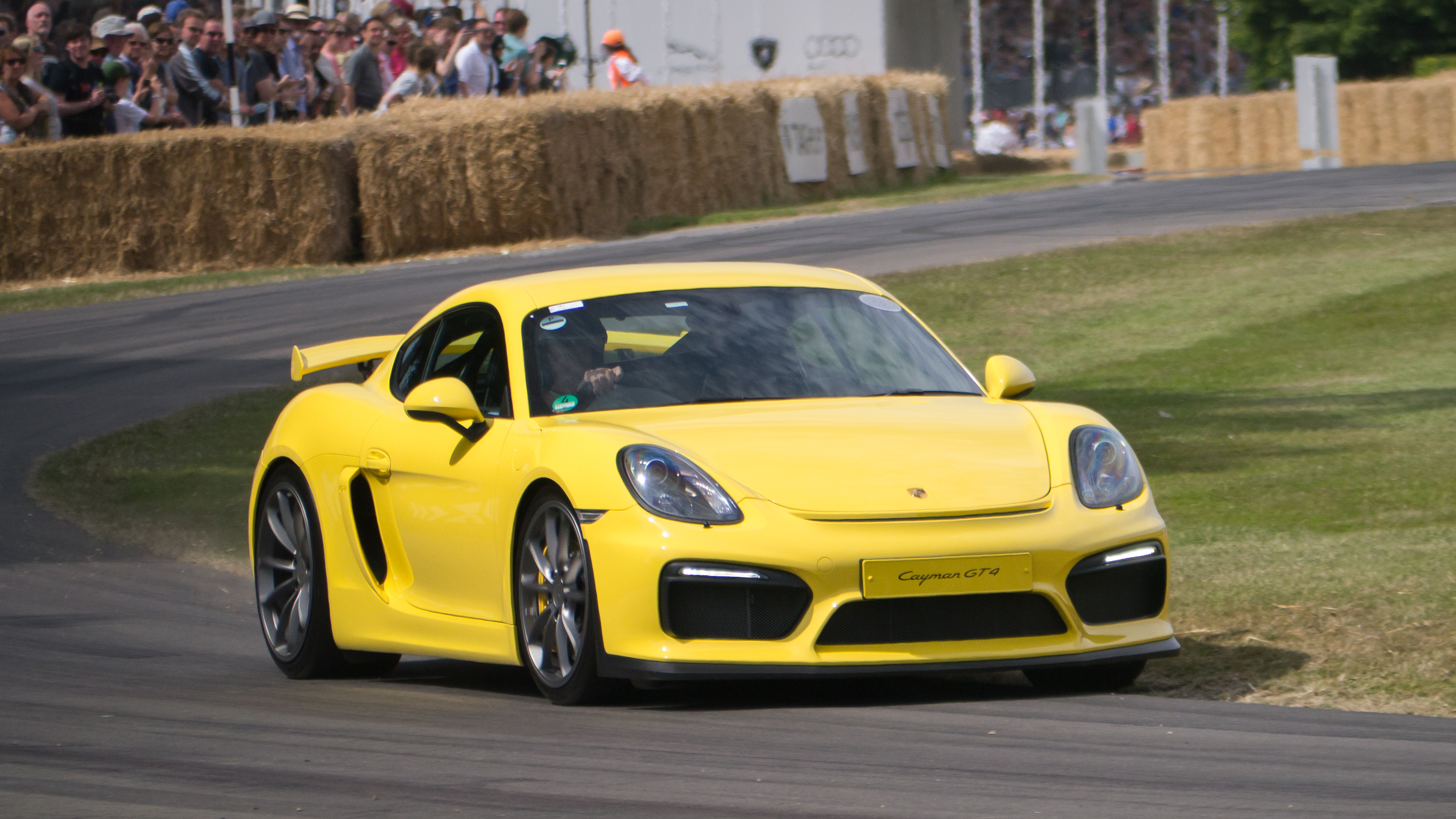 A 2015 Porsche Cayman GT4 on the track.